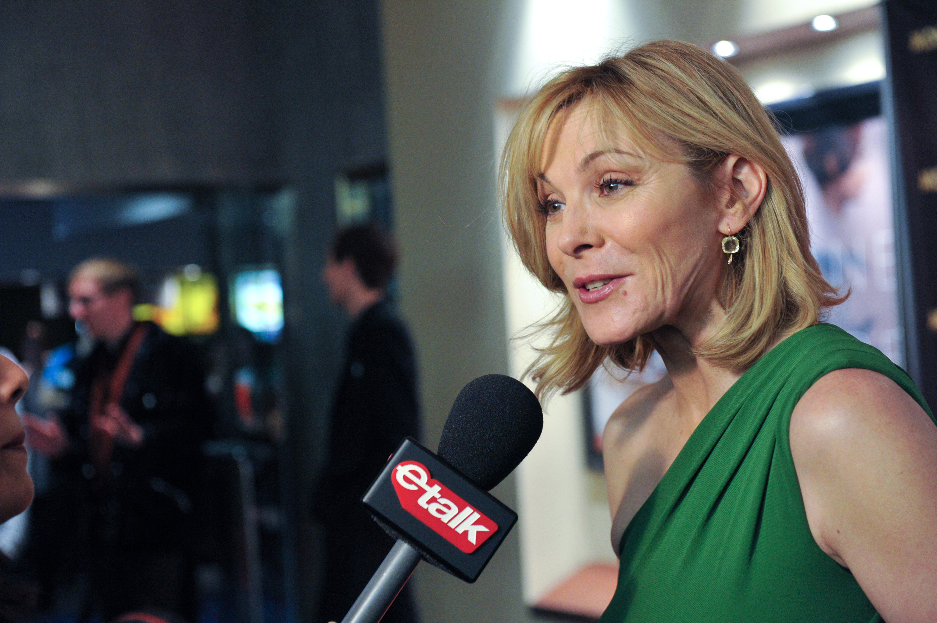 Kim Cattrall chatting with etalk on the red carpet for the Canadian premiere of "Meet Monica Velour", hosted by the Canadian Film Centre. To learn more about CFC, please visit: Photo by Sonia Recchia